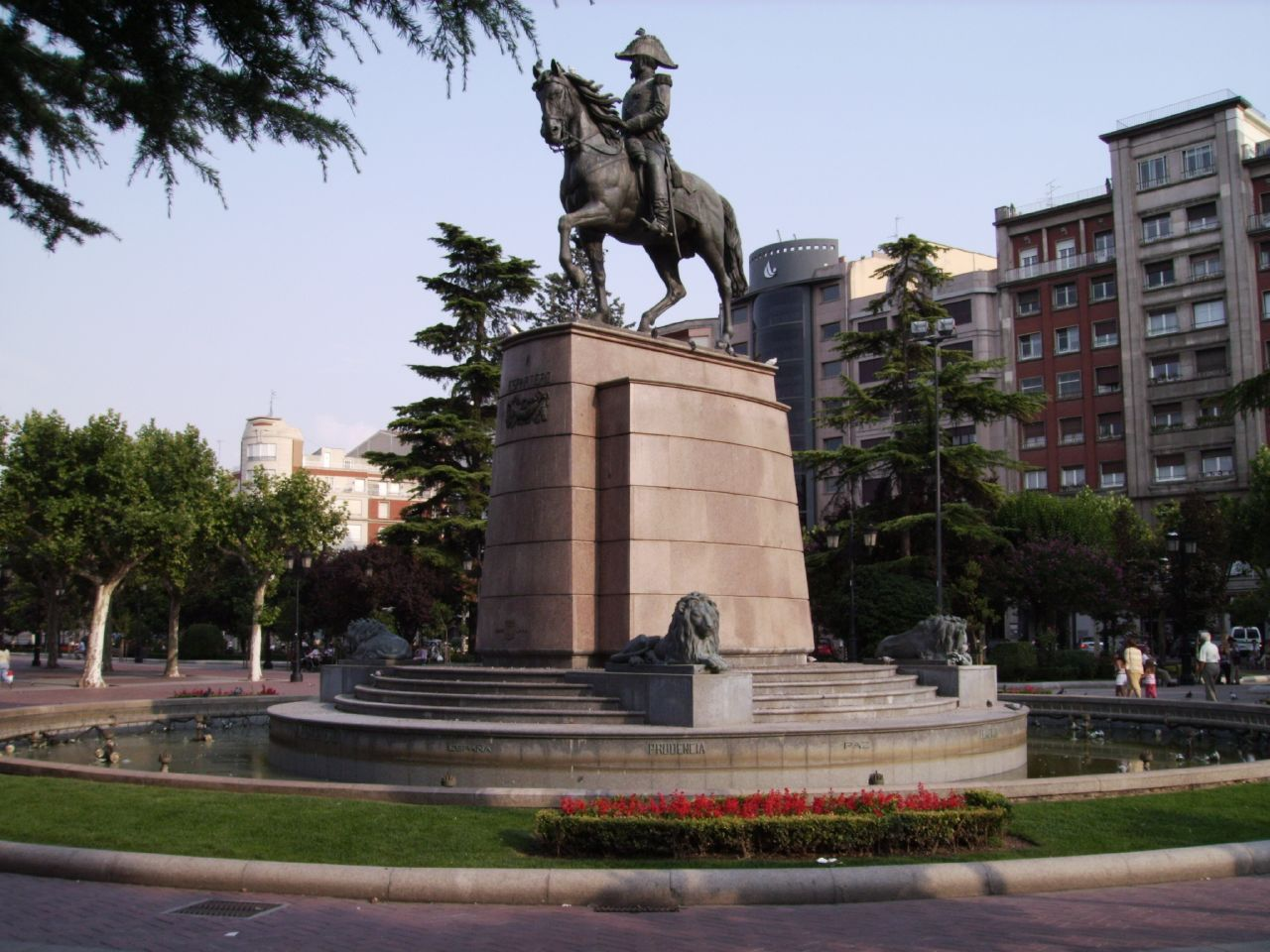 Monument to Espartero in Espolón Square in Logroño, Spain.